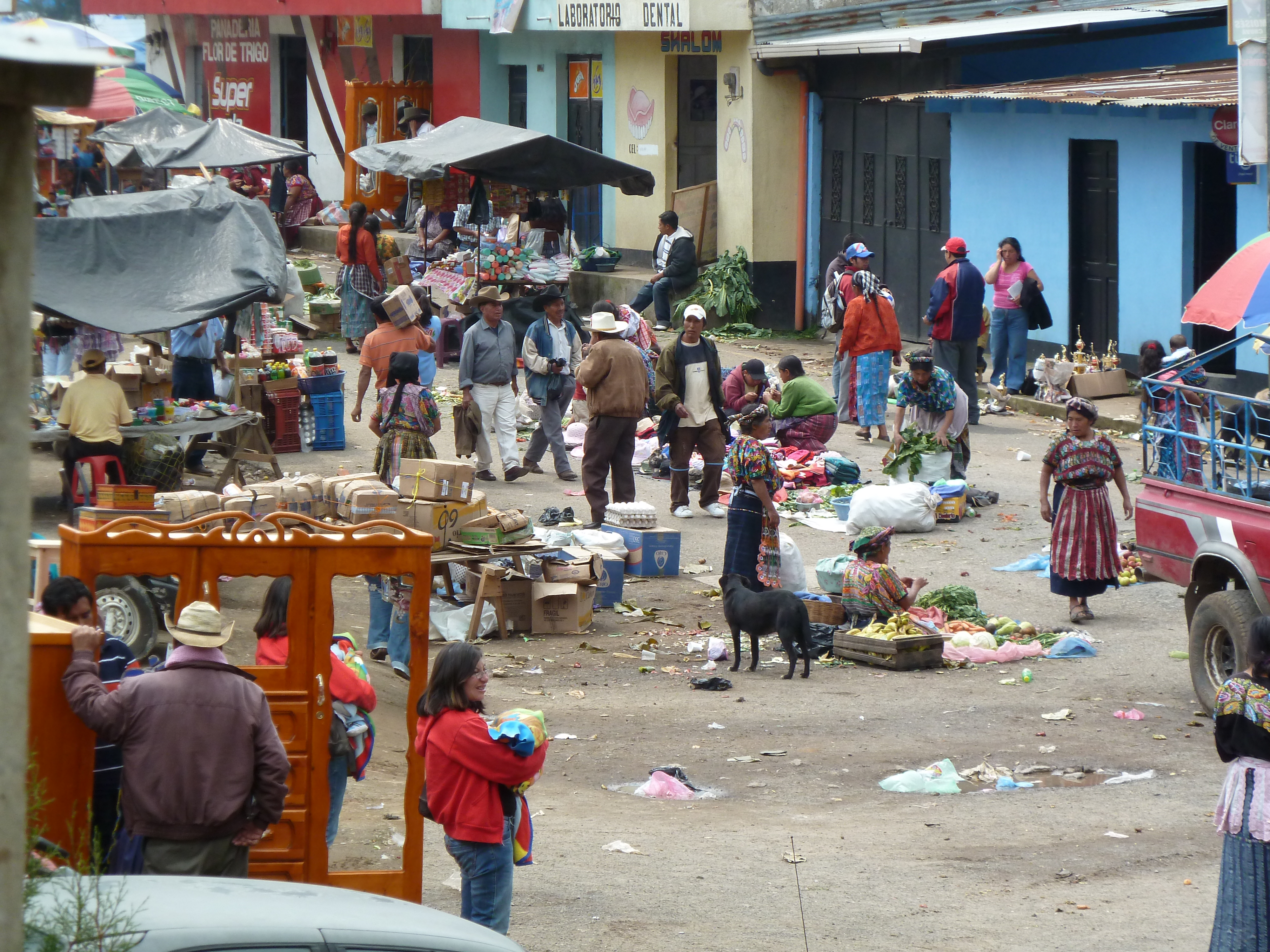 Market scene in Palestina, 2011